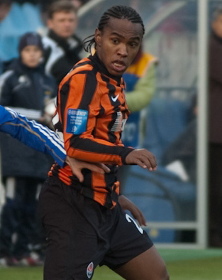 Willian Borges da Silva, midfielder for FC Shakhtar Donetsk